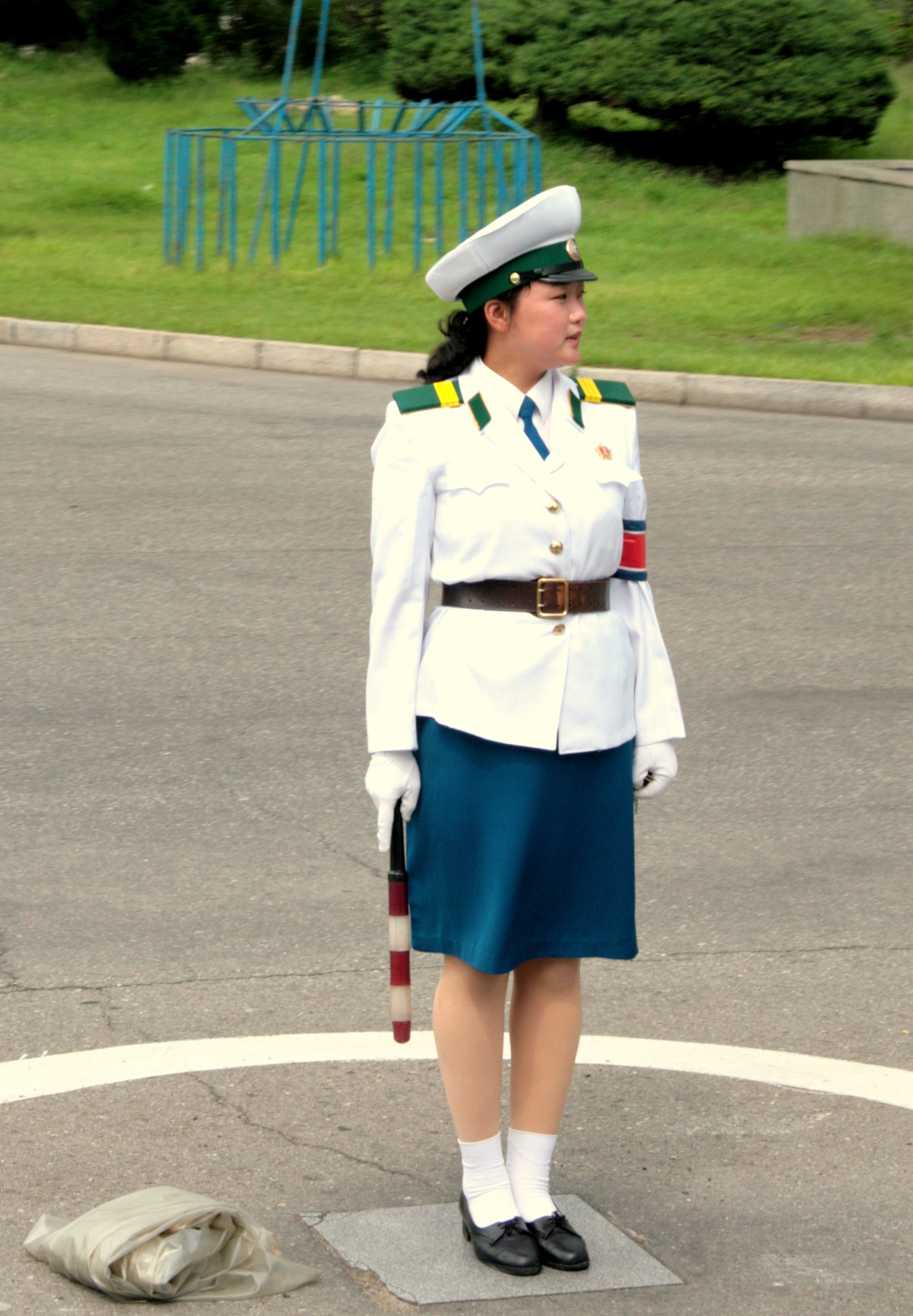 Police handling traffic in North Korea in 2007.